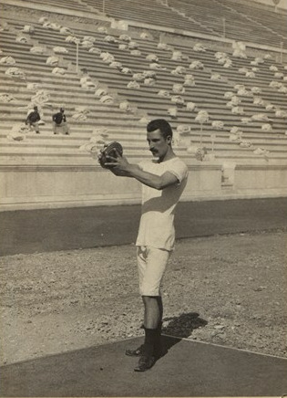 Double Olympic champion Robert Garrett (1875-1961) at the 1896 Summer Olympics